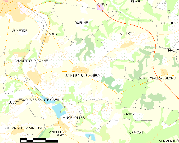 Map of French municipality Saint-Bris-le-Vineux